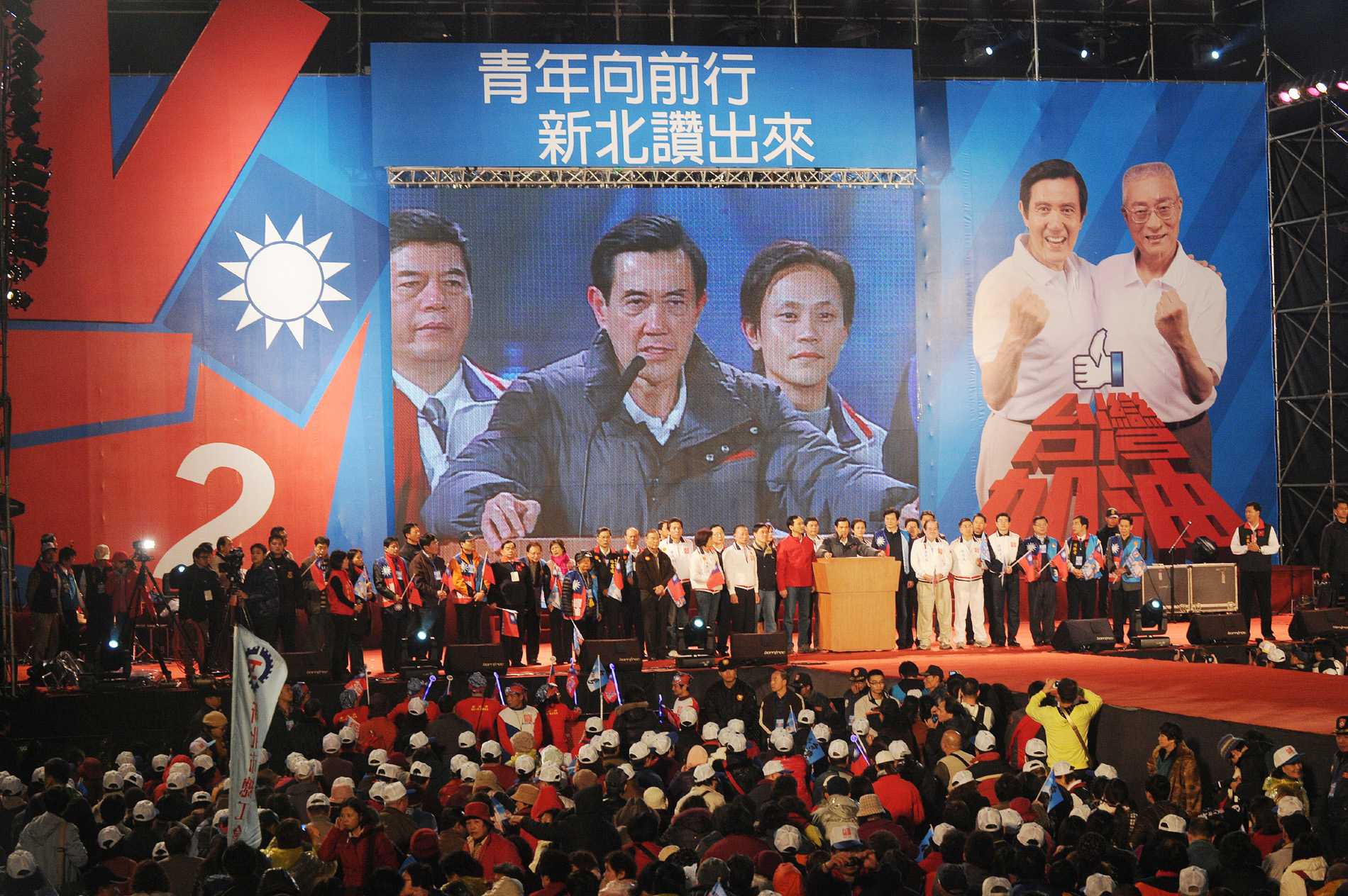 Kuomintang (KMT) presidential candidate Ma Ying-jeou (center screen) speaks at a rally in Banqiao District, New Taipei City, on Jan. 7, 2012.